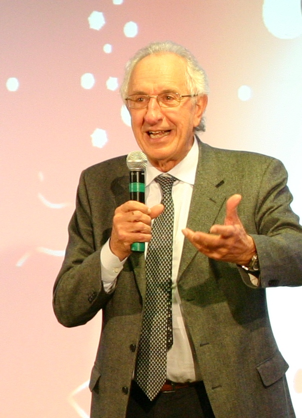 Rector Vincenzo Lorenzelli at Campus Bio-Medico University in Rome (2011)